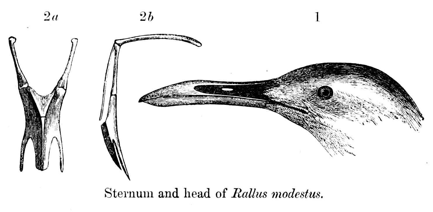 « Rallus modestus » = Gallirallus modestus (Chatham Rail) - sternum and head